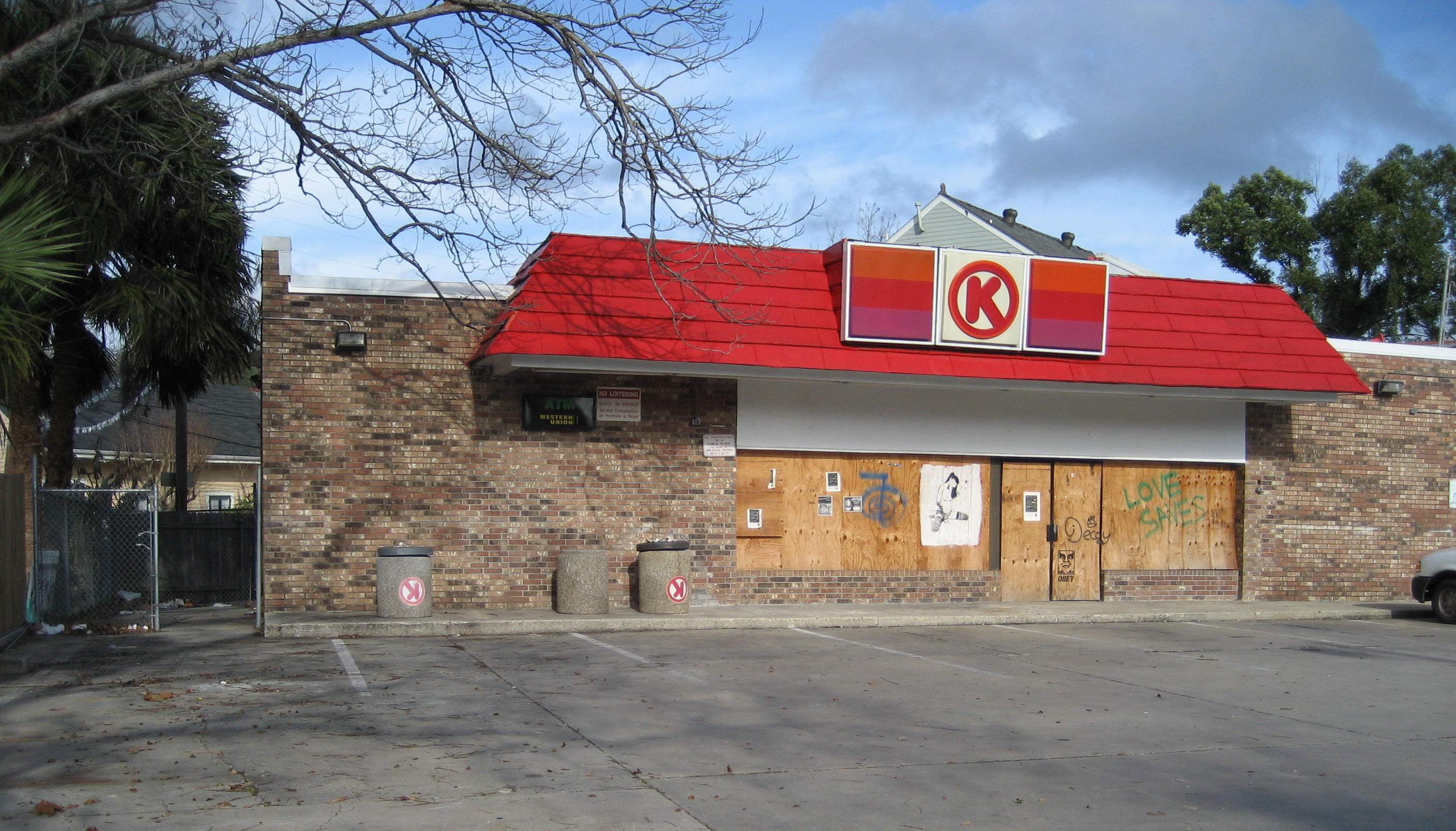 Esplanade Avenue, New Orleans: Circle K convenience store closed since the Hurricane Katrina floods.